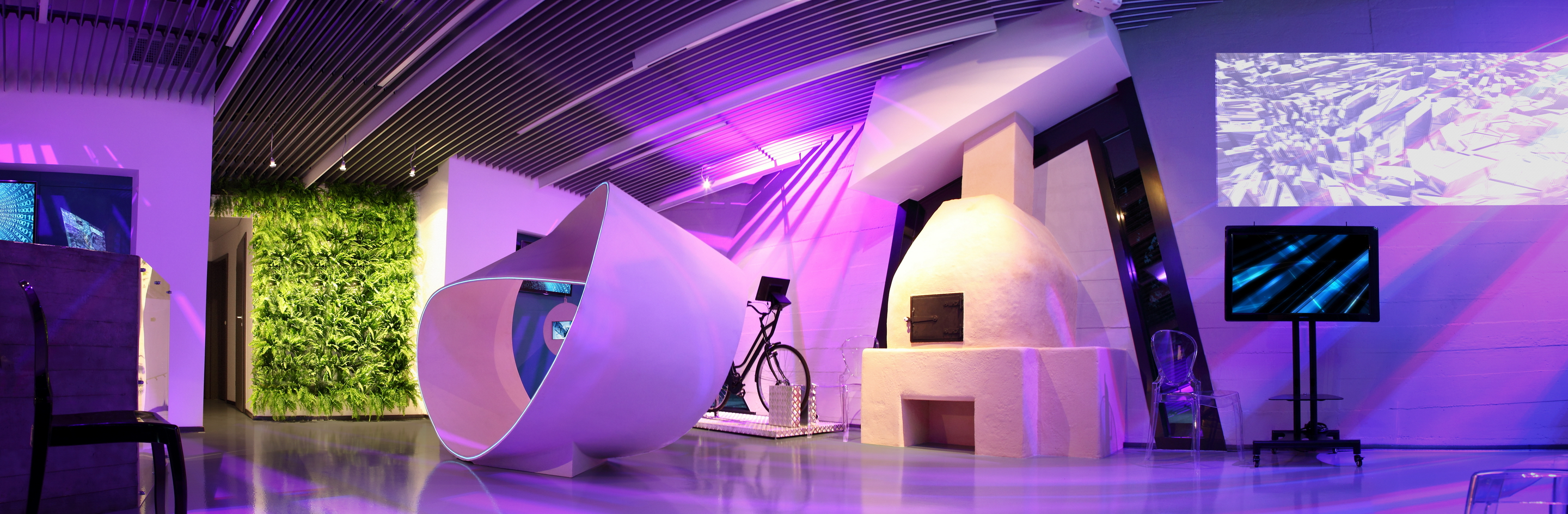 A picture of the Digital Museum by arch. Claudiu L. Ionescu.